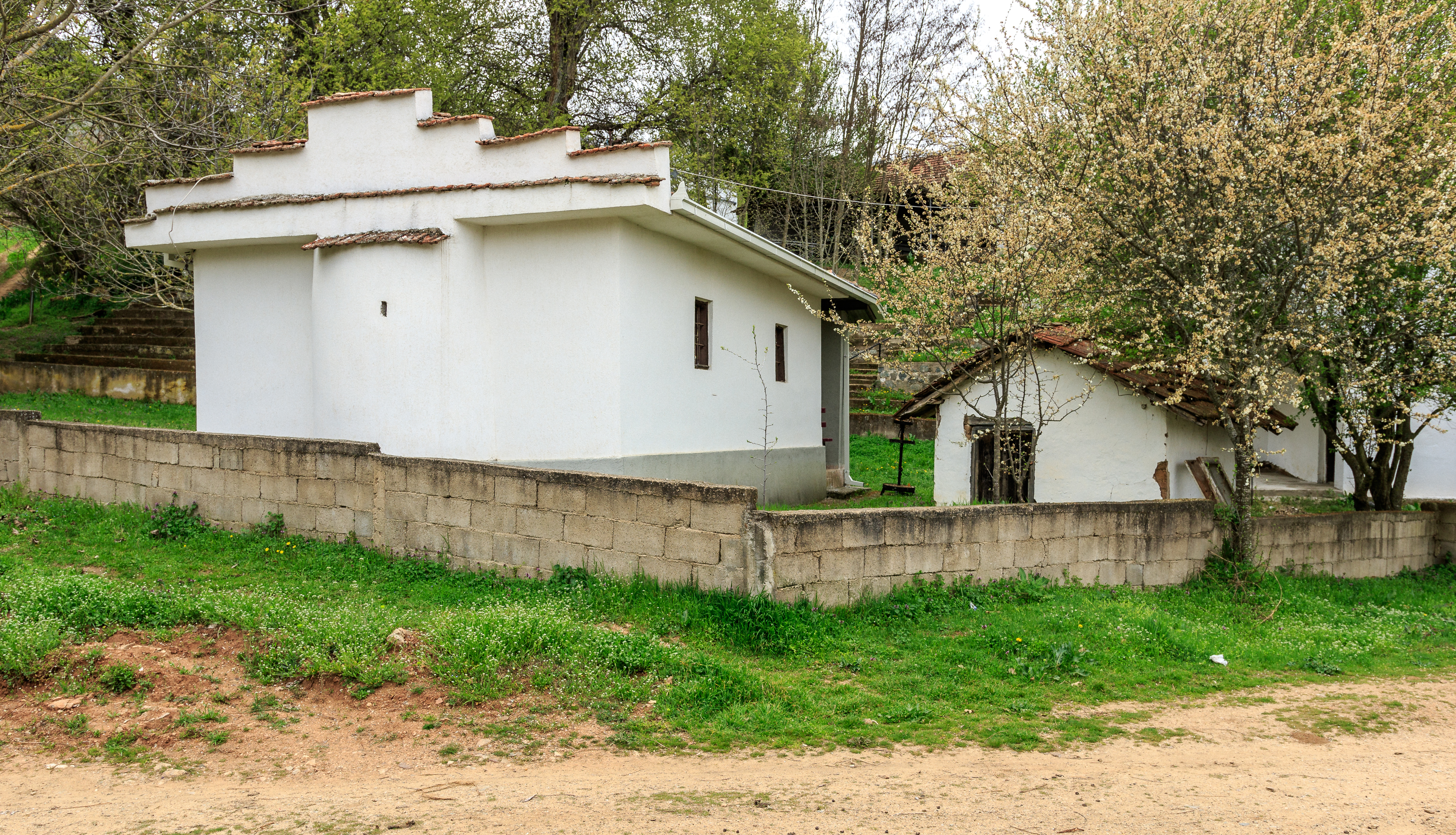 View of the Church of the Theotokos in the village Piperovo